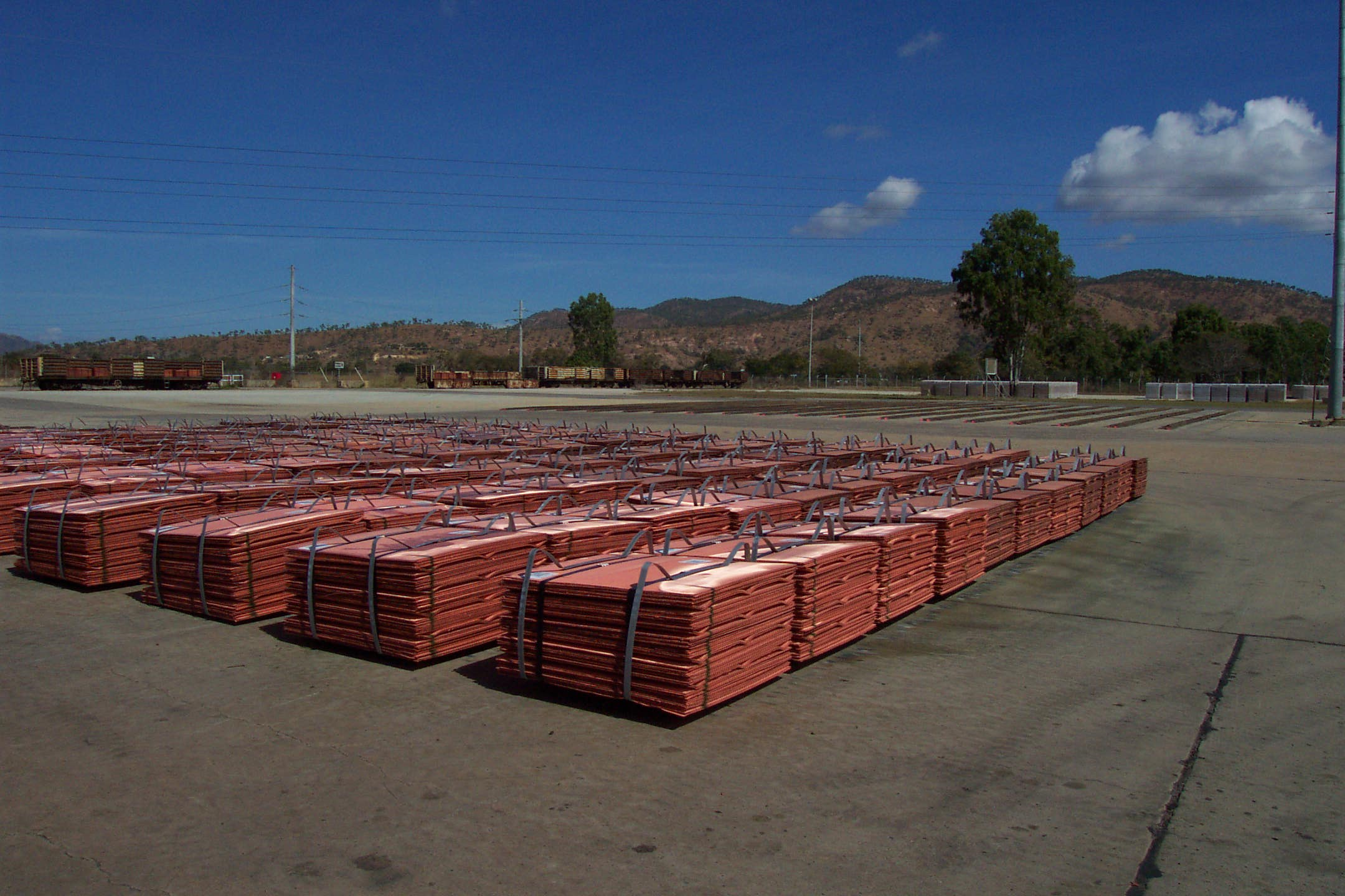 Photograph of bundles of crimped cathode copper ready for transport.